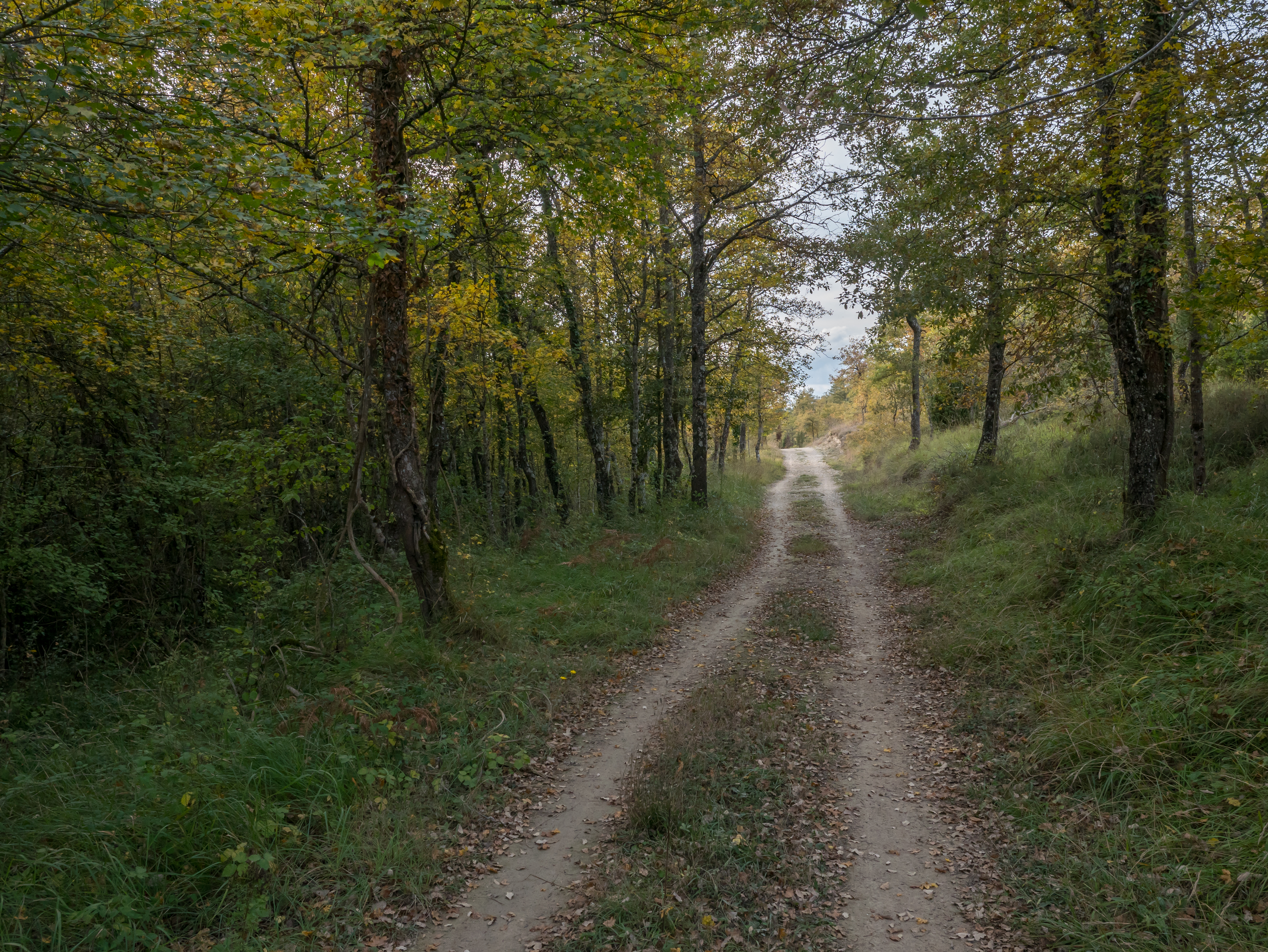 Trail "Camino de la Dehesa" near Monasterioguren. GR25 hiking trail. Álava, Basque Country, Spain